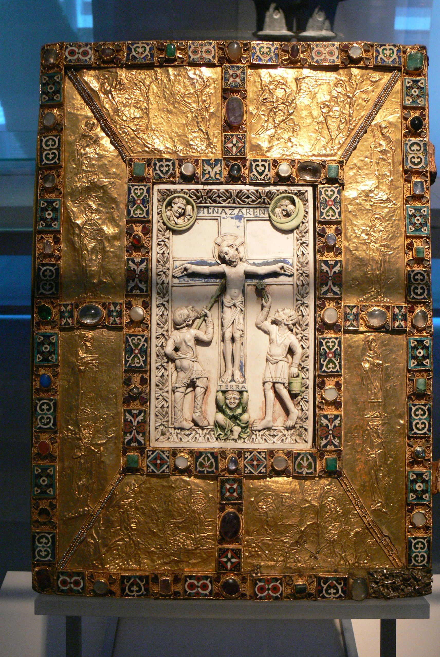 German National Museum ( Nuremberg / Germany ). Codex aureus Echternachiensis ( 991 ), from Trier.